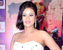 Urmila Mahanta at the music launch of Hindi film 'Purab Ki Aawaz' অসমীয়া: "পূৰৱ কি আৱাজ" নামৰ হিন্দী চলচ্চিত্ৰখনৰ সংগীত মুক্তিৰ অনুষ্ঠানত অসমীয়া অভিনেত্ৰী উৰ্মিলা মহন্ত